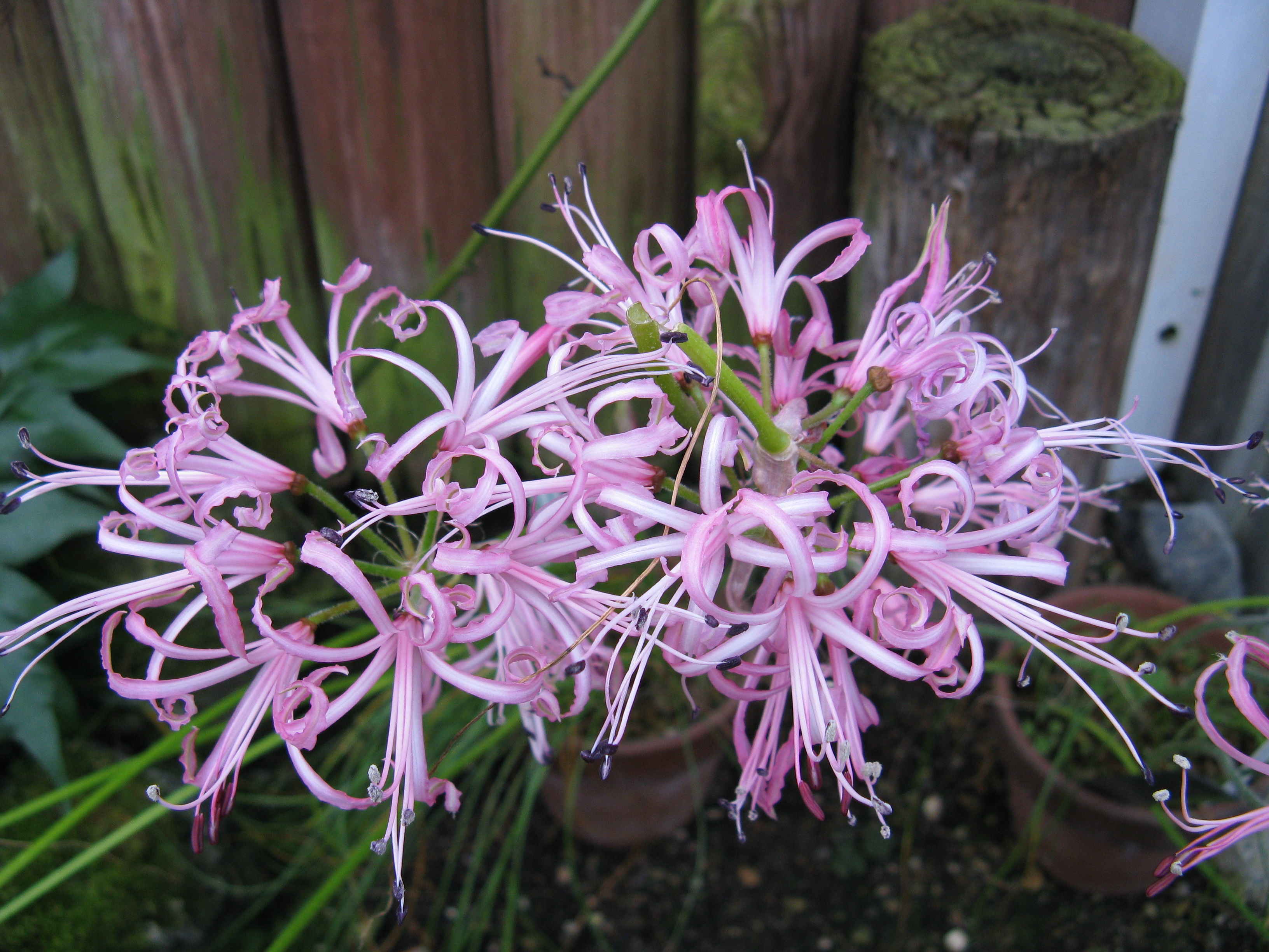 Scientific name Nerine filifolia Place:Osaka Prefectural Flower Garden,Osaka,Japan